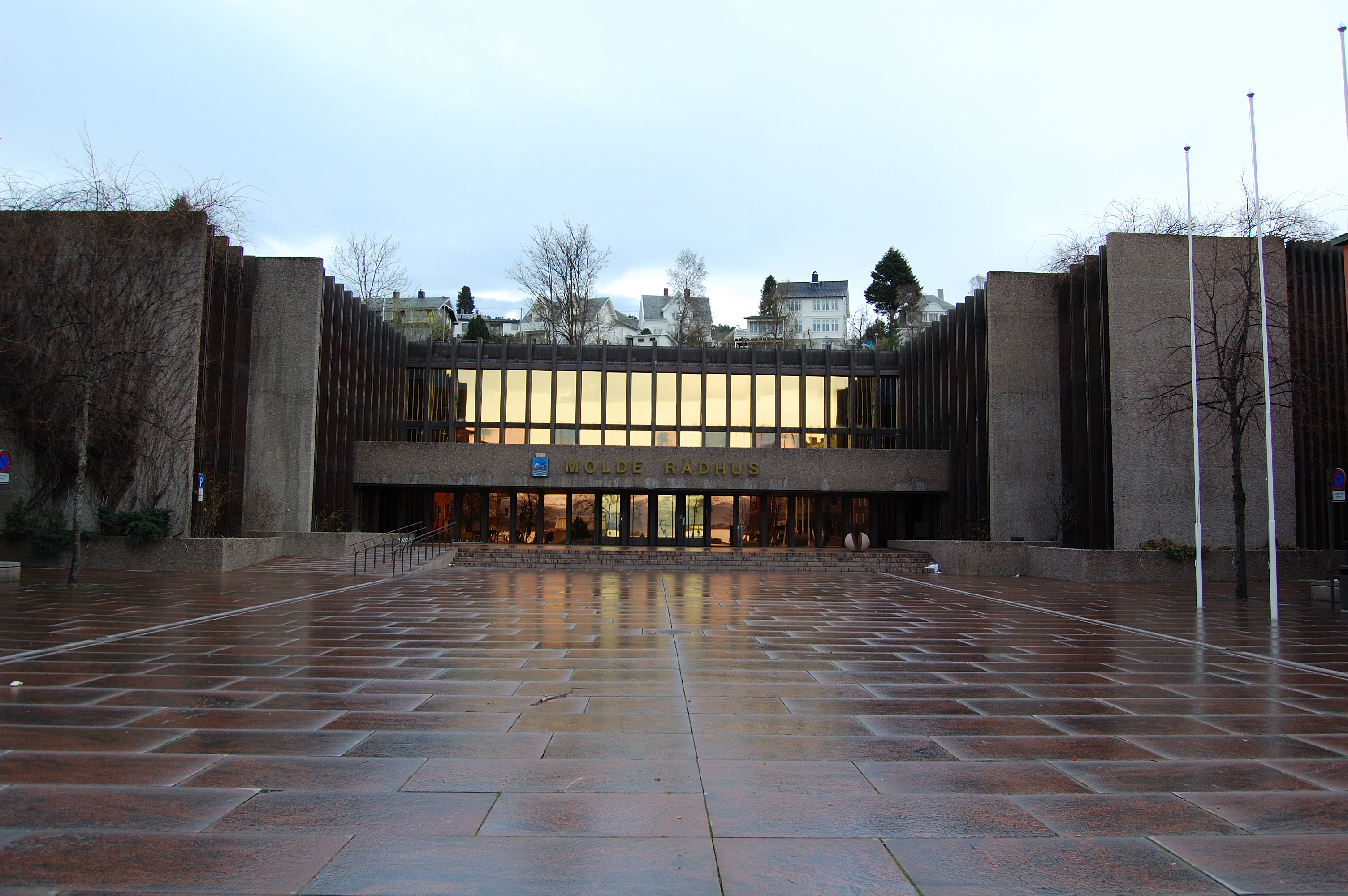 The townhall of Molde, Norway.